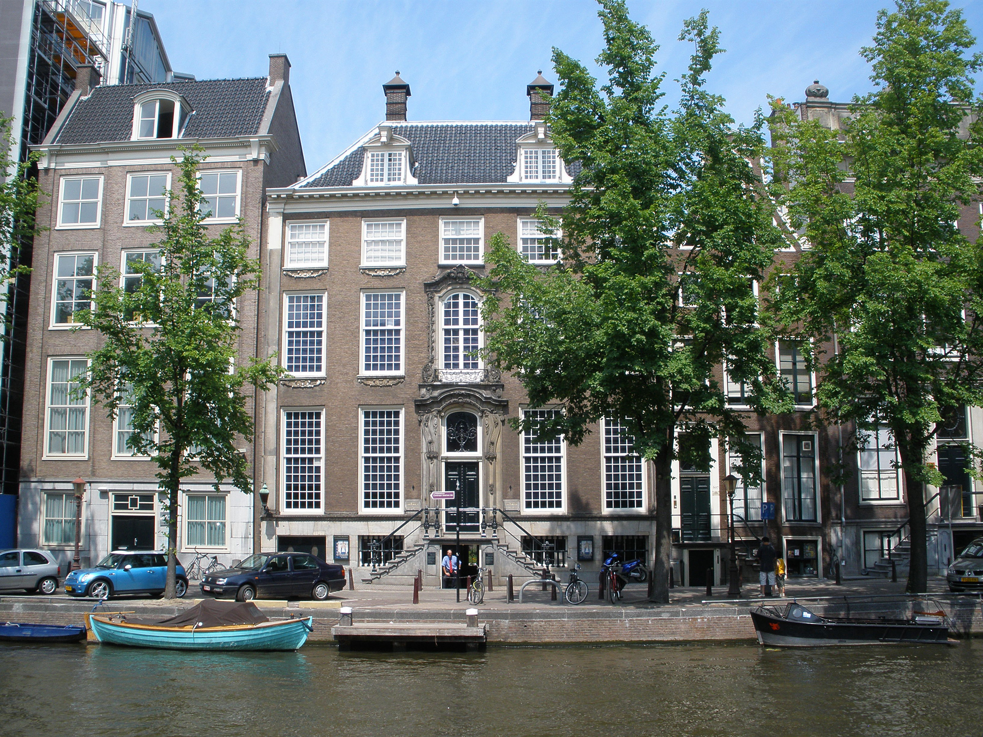 Museum Willet-Holthuysen on the Herengracht canal in Amsterdam